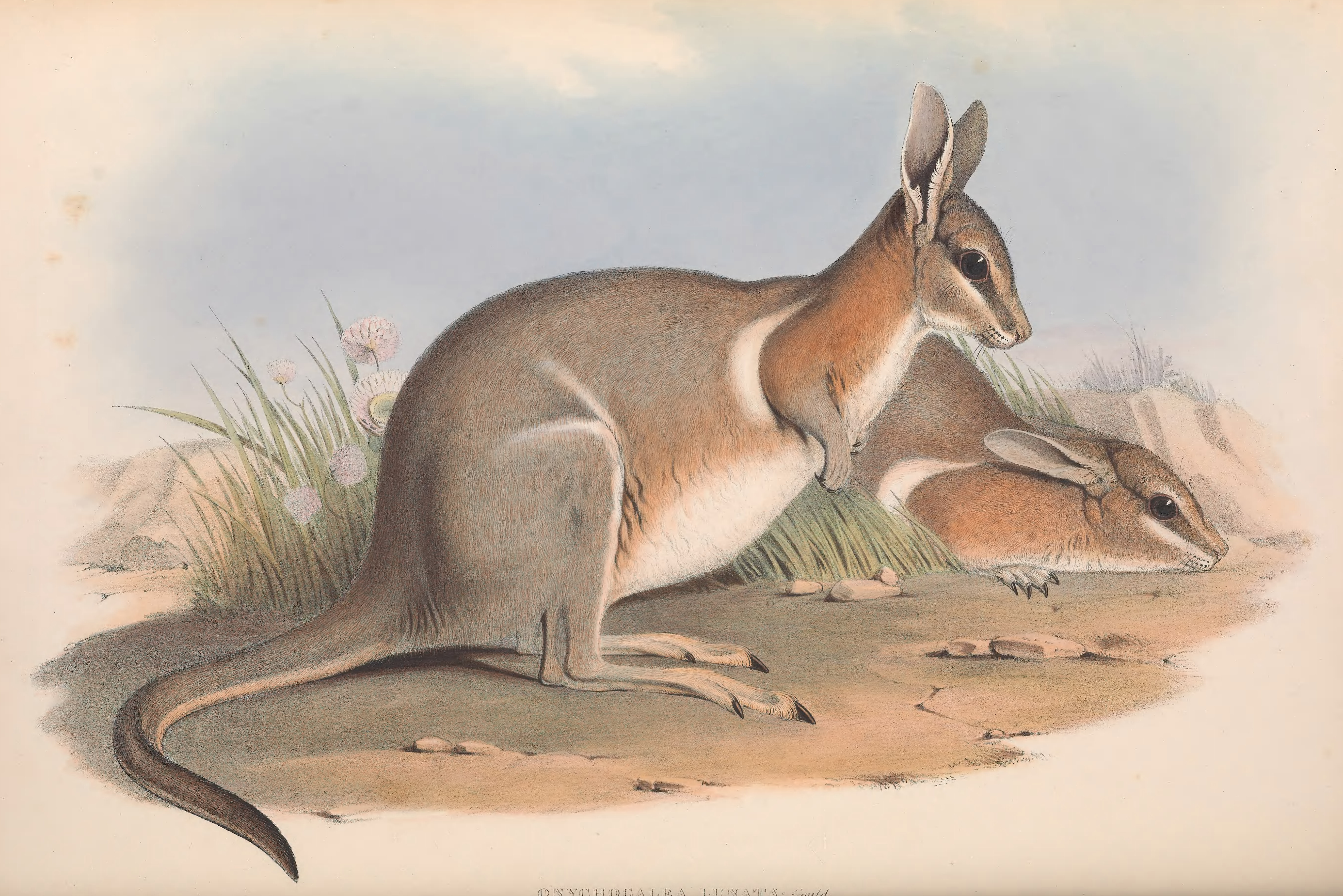 Plate in Gould's Mammals of Australia volume 2. The title is the caption in that work, and may be a synonym. The file was uploaded with the current name in the category, a crop and other adjustments were made to the image. The caption and other details were removed.